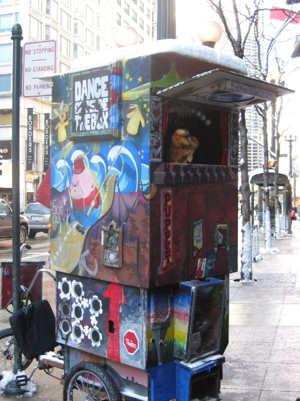 Puppet Bike in action!! Love it! Even though I've seen it a bunch of times before, I'm still mesmerized like a small child every time I see it. I think it's the randomness of where and when it's going to show up that makes it a little bit like magic.